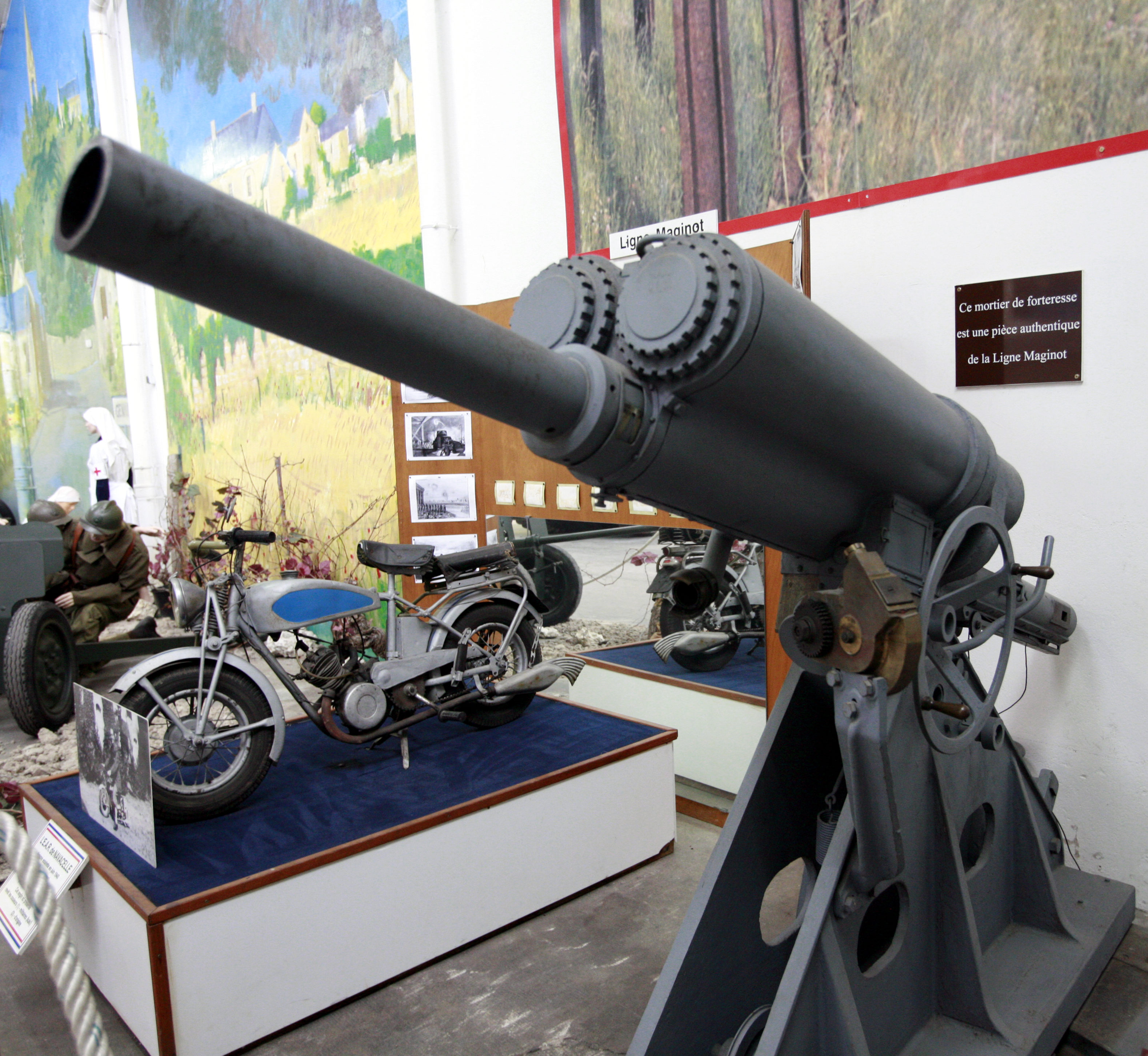 French fortress mortar of the Maginot line, model 1934, 81mm. On display at Saumur Général Estienne museum.